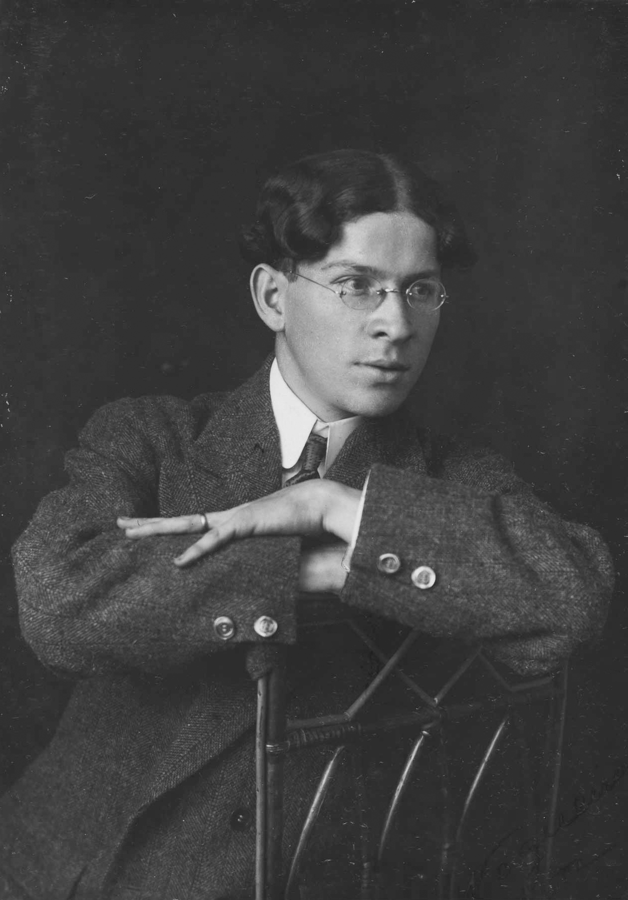 Menotti Del Picchia (1913)